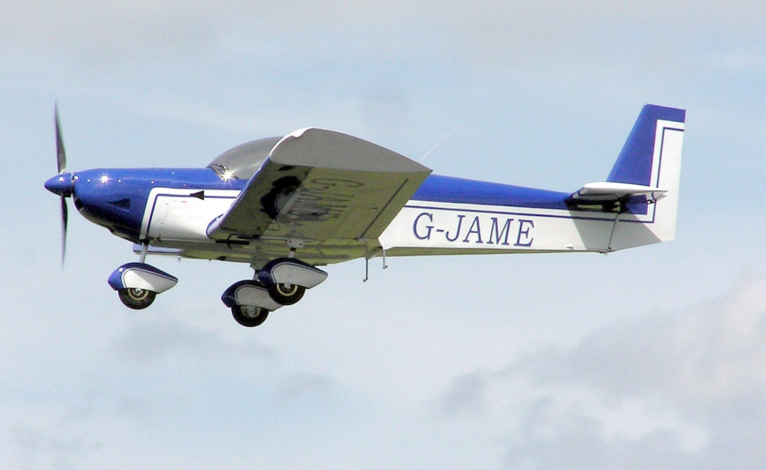 Zenair Zodiac CH 601UL (UK registration G-JAME) at Kemble Airfield, Gloucestershire, England, built in the year 2004. Photographed by Adrian Pingstone in July 2005 and released to the public domain.